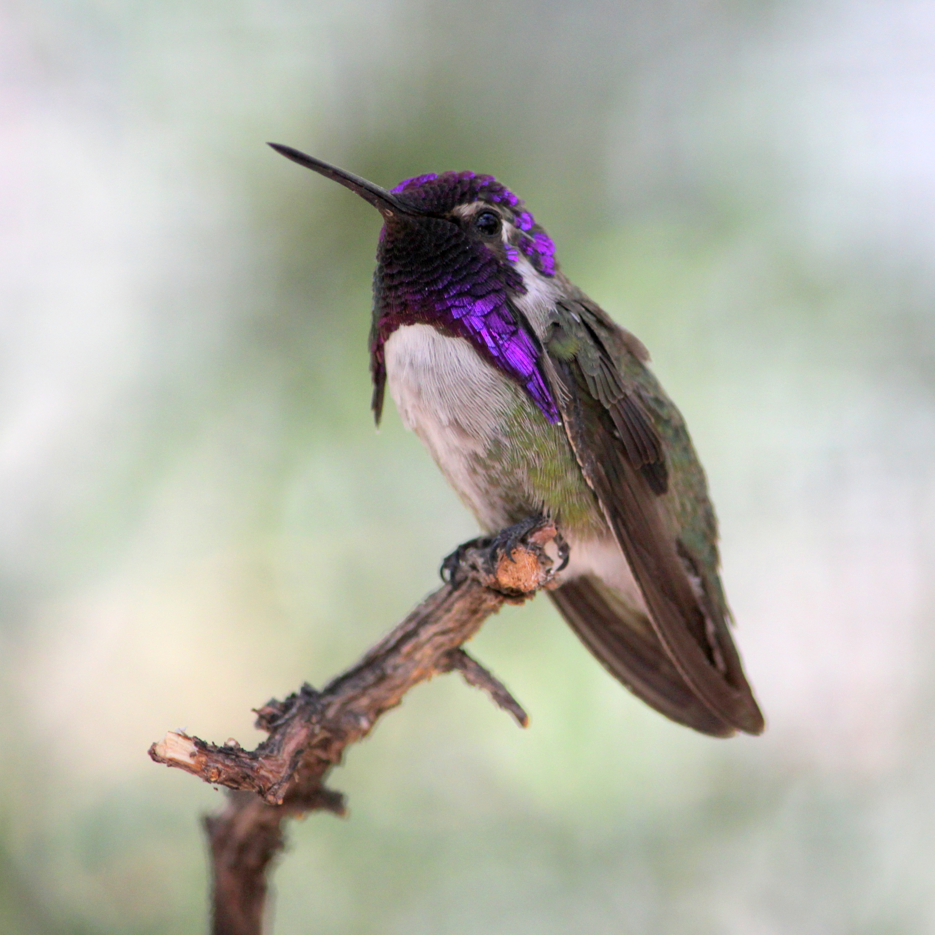 Costa's Hummingbird, Arizona-Sonora Desert Museum aviary.